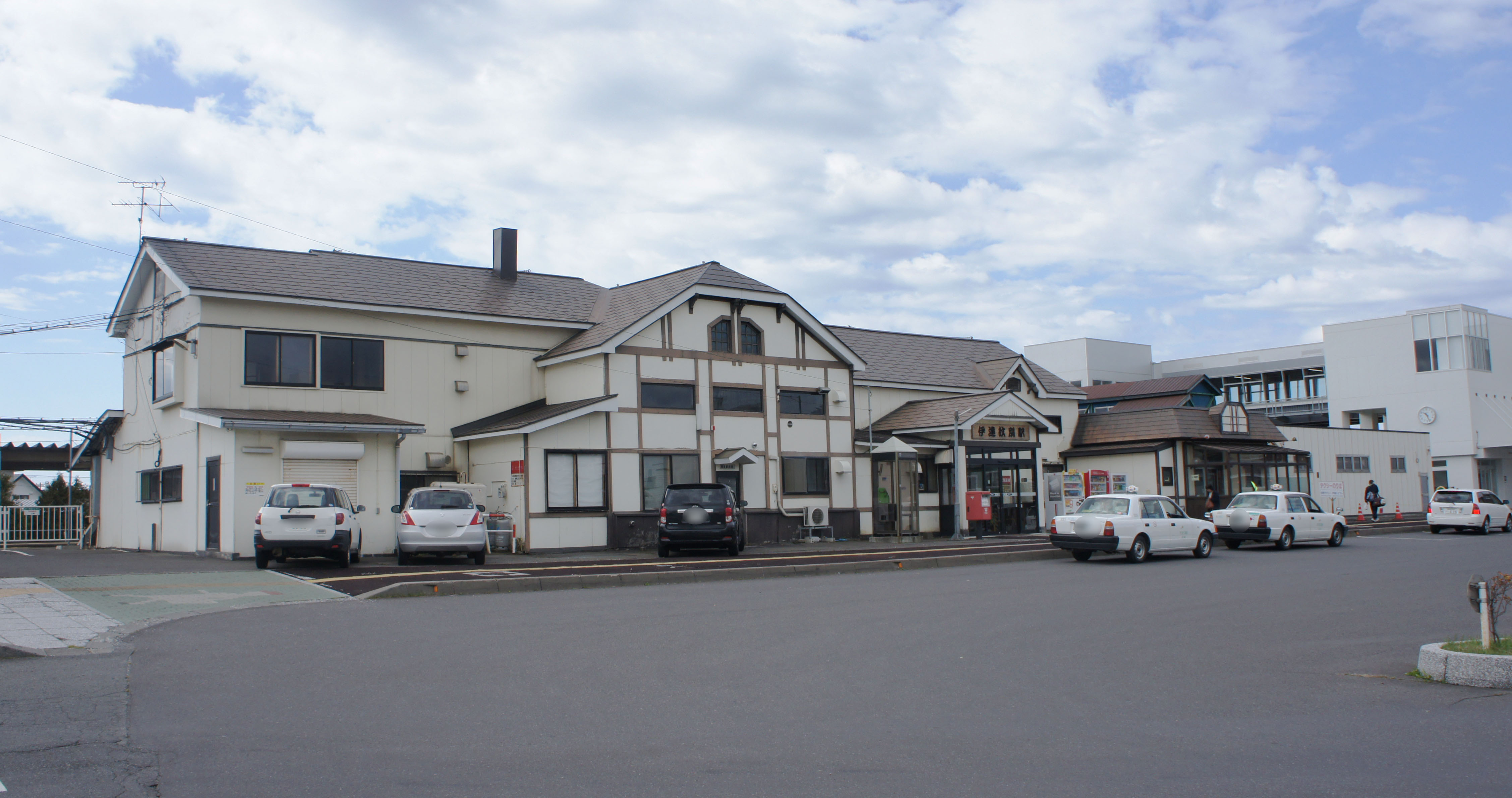 Station building of JR Muroran-Main-Line Datemombetsu Station